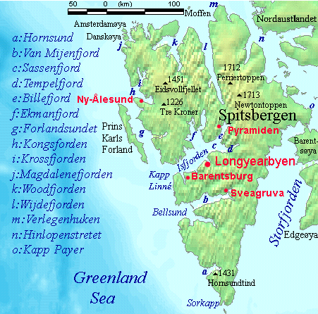 Map detailing the marine features of Spitsbergen in the Svalbard archipelago. Settlements and mountains are indicated and labelled. See also Image:Spitsbergen mountains and marine features labelled.png. Locations were labelled based on detailed maps from (sample of south Spitsbergen linked), cross-referenced with other map sources. Norwegian Polar Institute figures were used for mountain names and heights, which are given in meters above sea level.